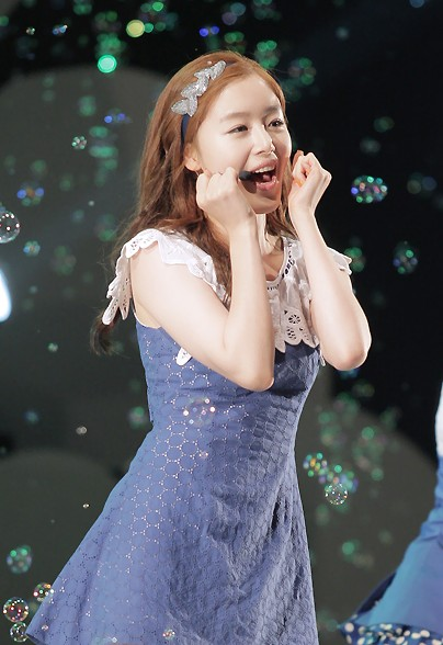 Sunhwa in 2011